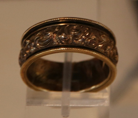 Photo of a mourning ring. Mostly gold set with jet and brown hair.